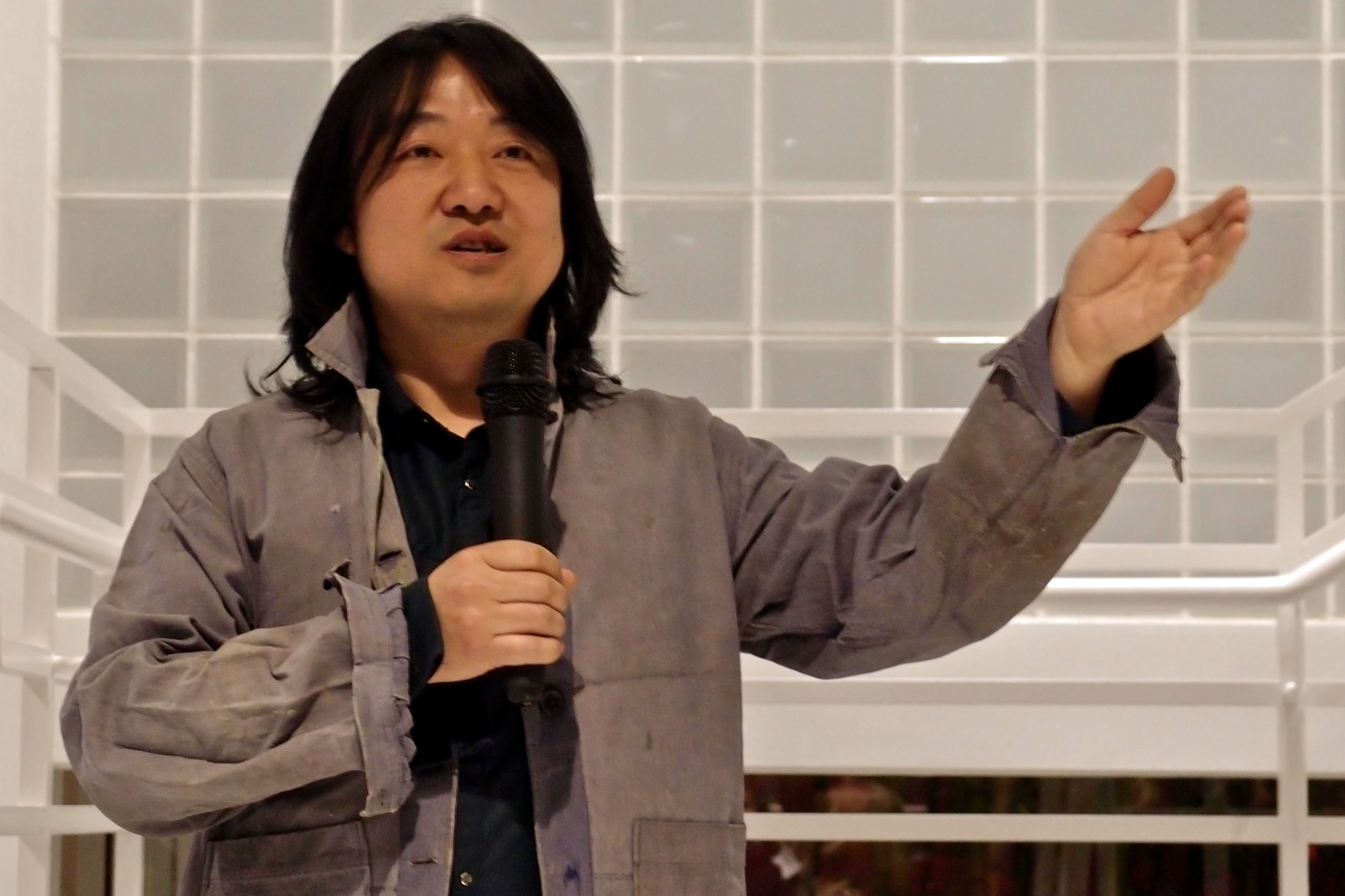 Song Dong discusses his work Courtesy of Yerba Buena Center for the Arts, San Francisco.